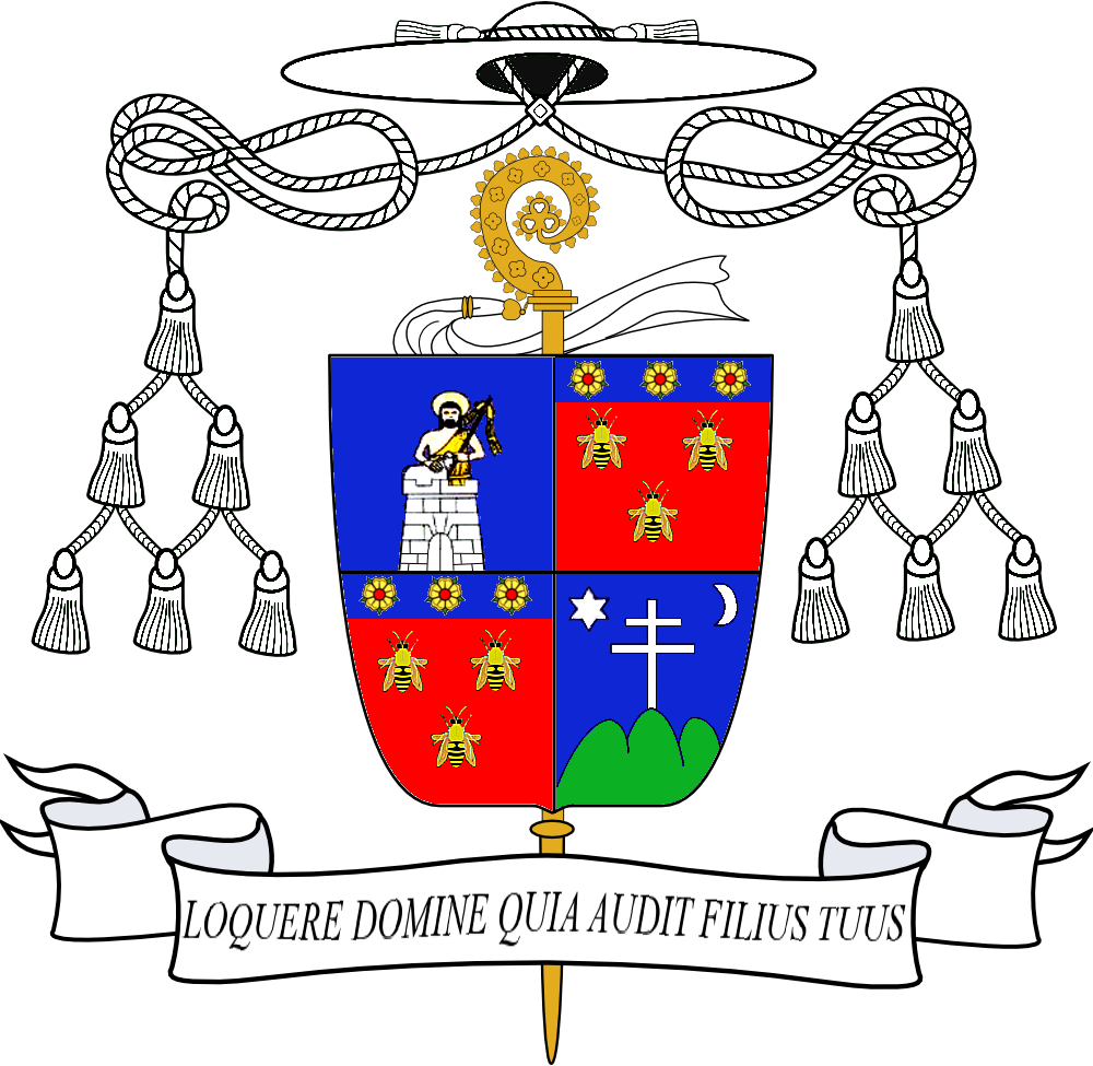 coat of arms of Jasov abbot Ambróz Martin Štrbák